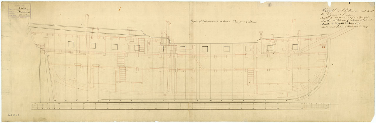 PORCUPINE 1777 Inboard profile plan